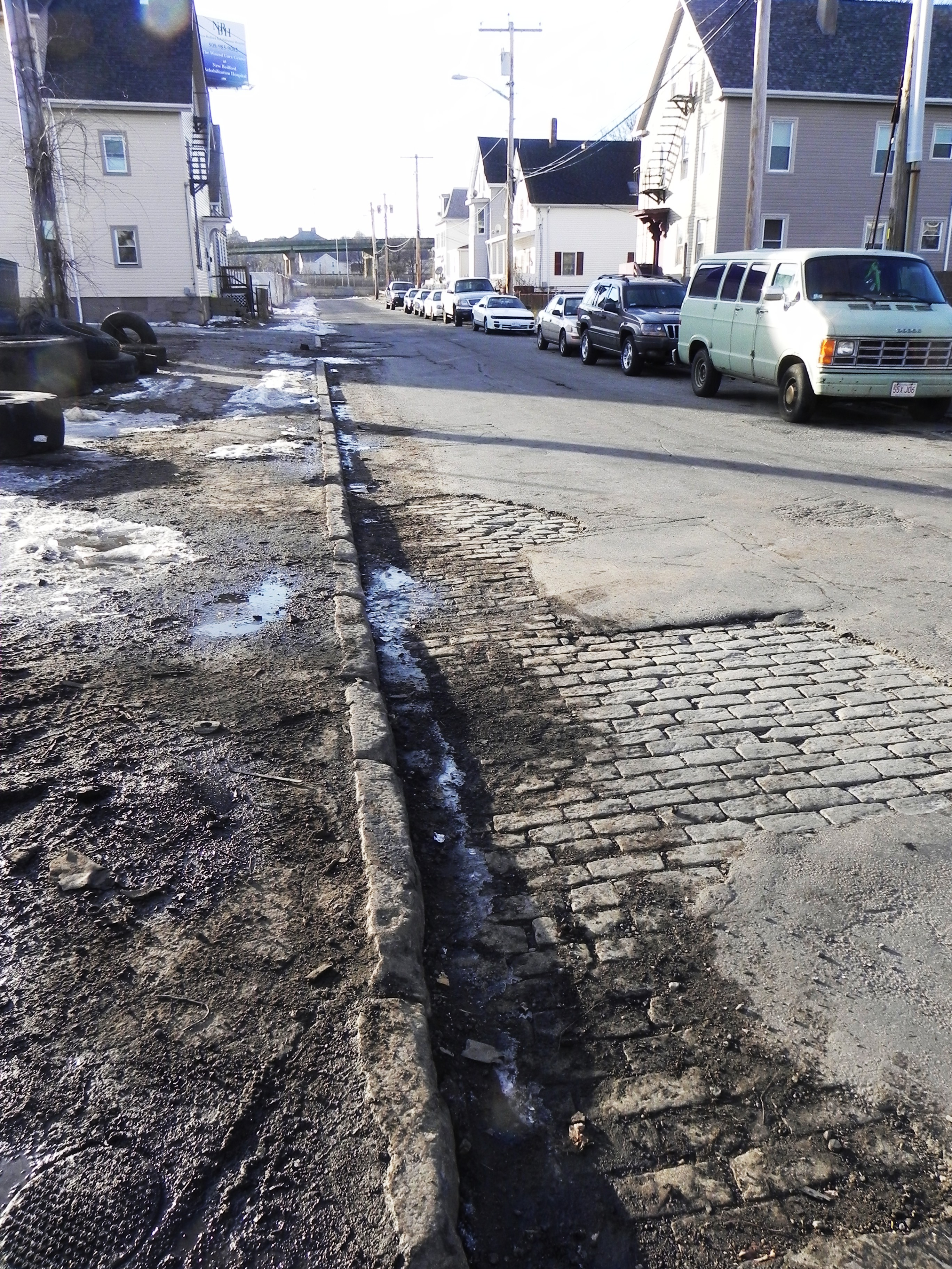 Cobblestones (setts/Belgian blocks, technically) visible beneath poorly maintained asphalt in New Bedford, Massachusetts. To whom it may concern, I took this picture myself for the intended purpose of improving the cobblestones article by giving a visual example of a phenomenon described therein.